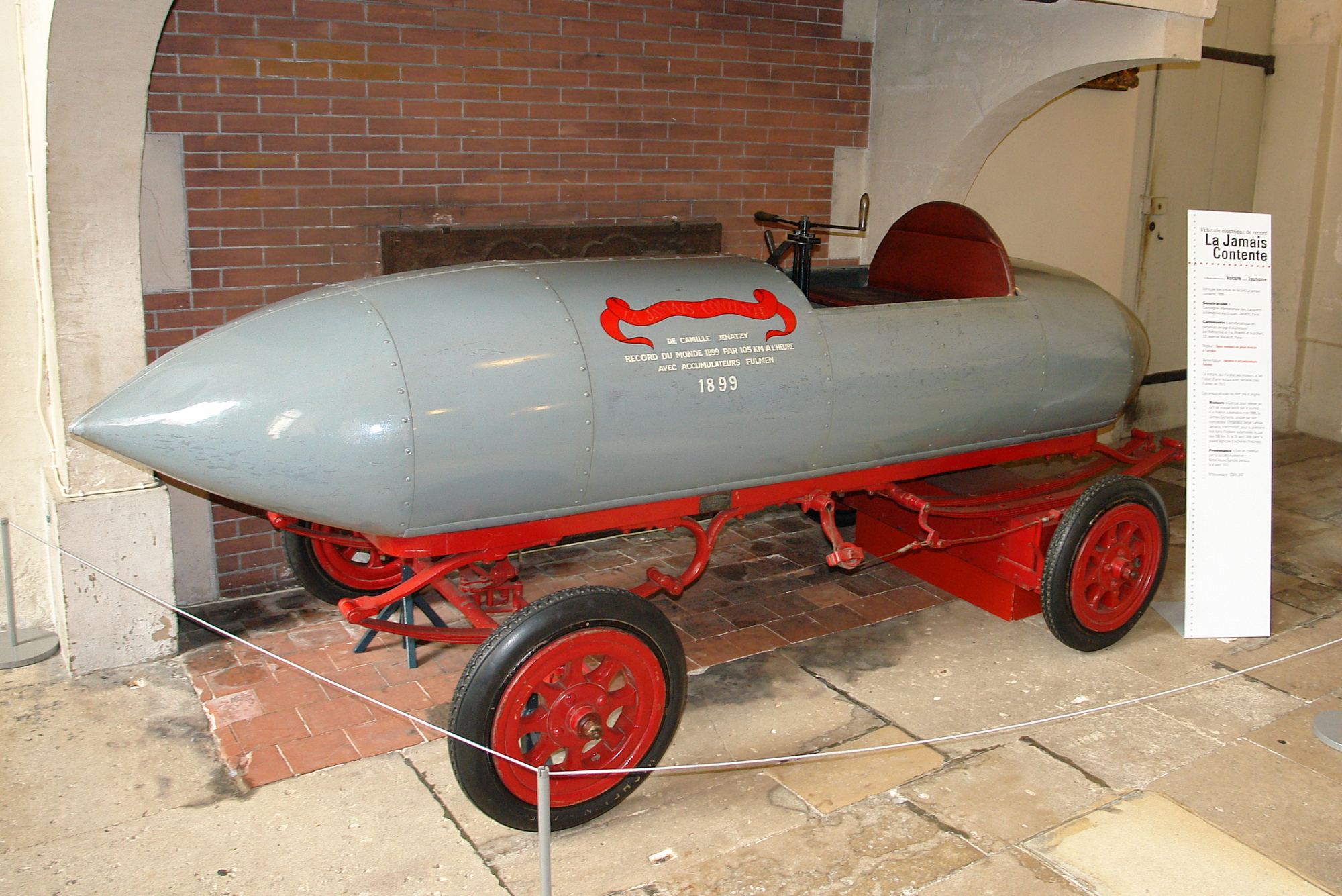 La Jamais Contente ("The Never Satisfied") was the first vehicle to go over 100 kilometres per hour (62 mph). It was an electric vehicle with a light alloy torpedo shaped bodywork. Now, it is exhibited in the Museum of Compiègnes.